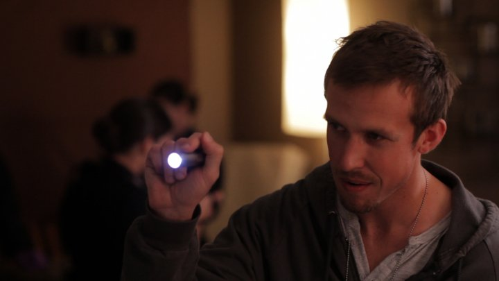 Justin Gordon as Detective Lonergan in "Absentia," directed by Mike Flanagan and produced by FallBack Plan Productions.